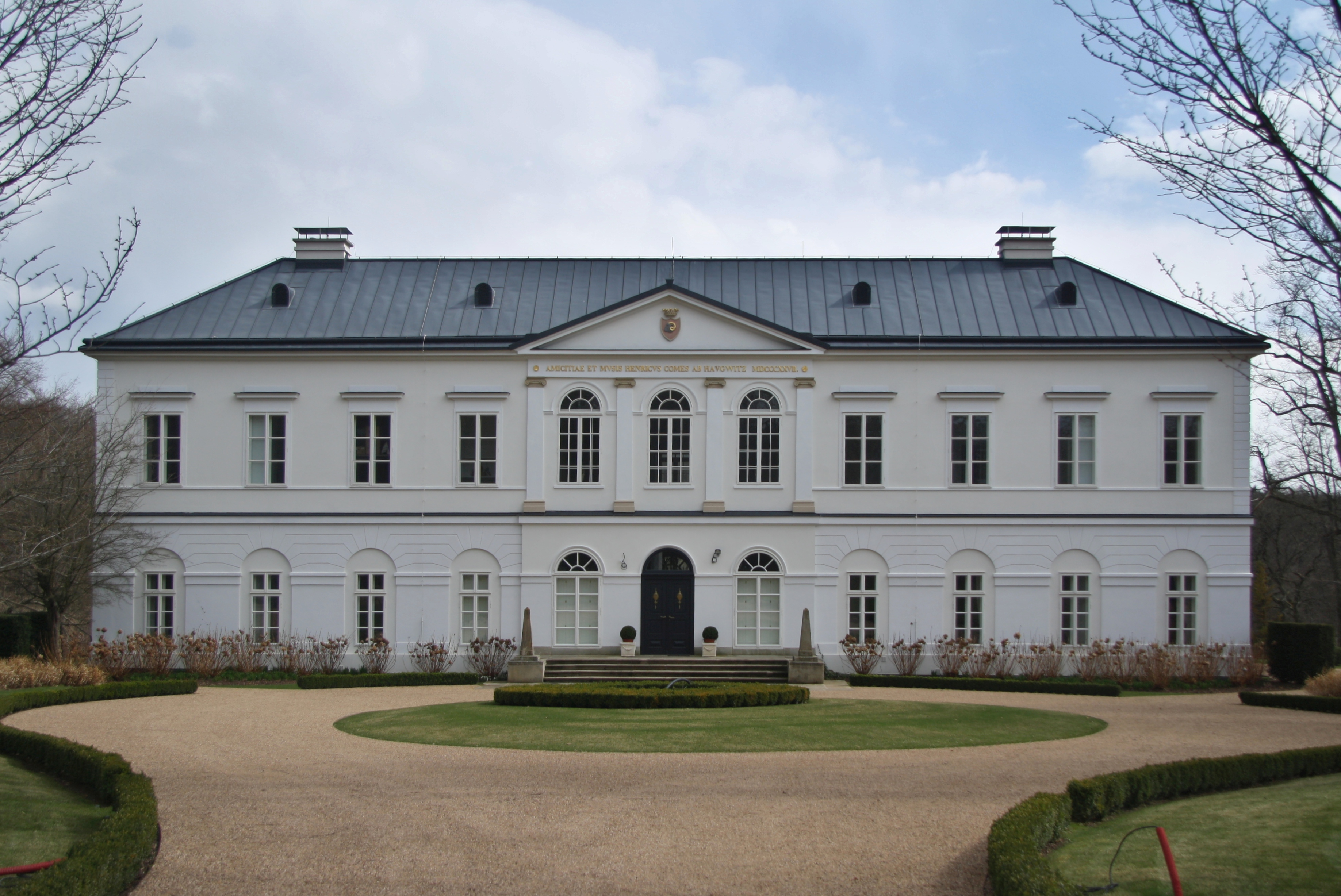 Overview of Šénvald castle near Jinošov, Třebíč District.